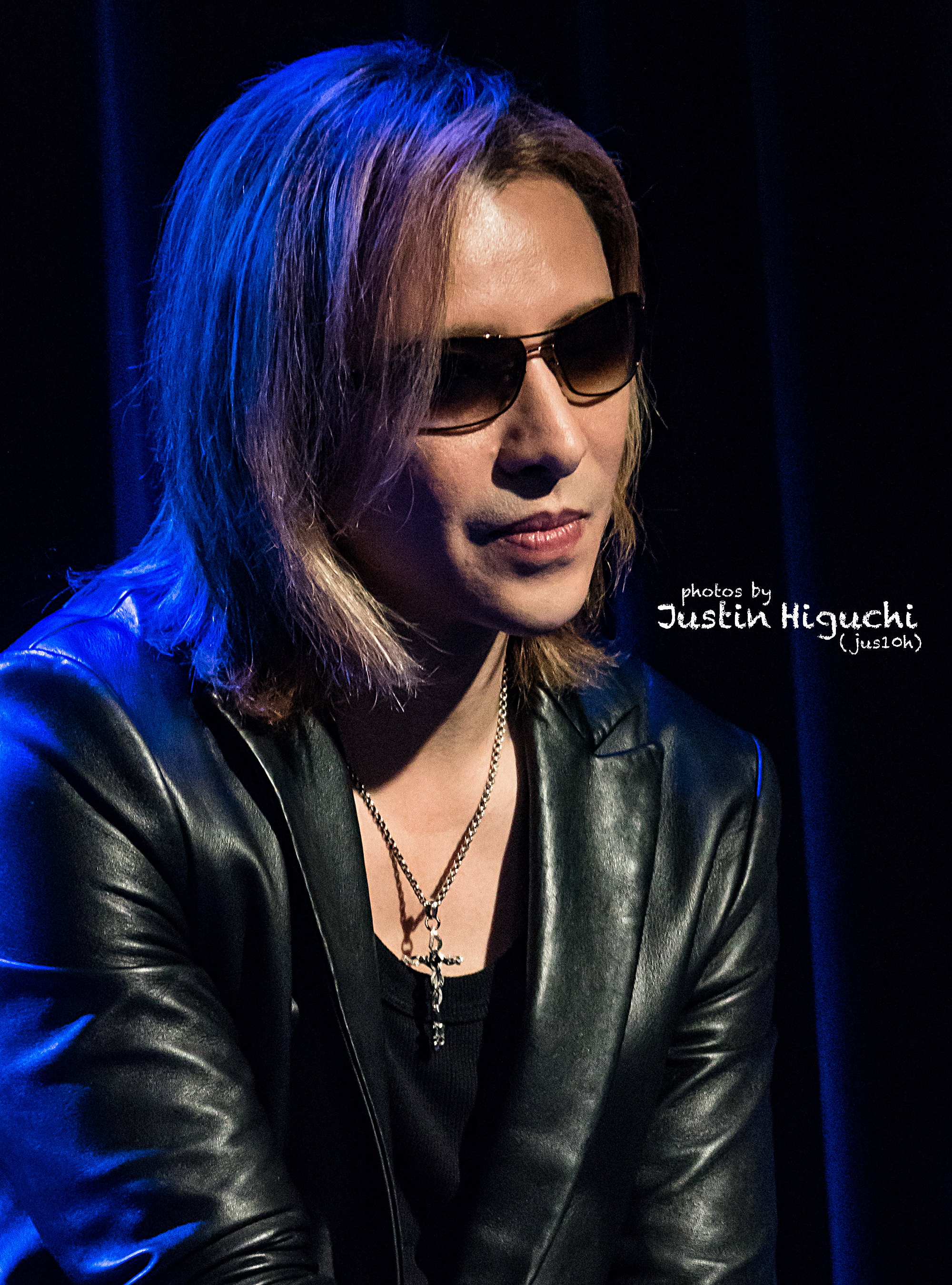 Yoshiki (of the band X Japan) performs live and participates in a Q&A session at Mezzanine nightclub in San Francisco California on Tuesday October 25th, 2016. The performance was part of the premiere screening of the film "We Are X", a documentary about Yoshiki's legendary rock band. The director of the film Stephen Kijak also participated in the Q&A session.